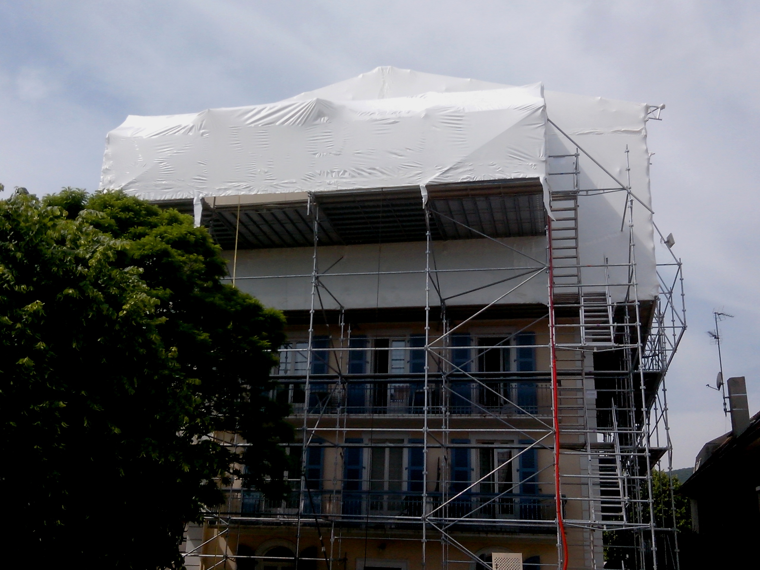 Temporary roofing system, also closing system to remove asbestos